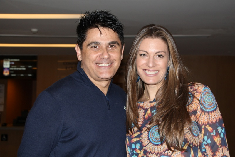 Cesar Filho e Elaine Mickely